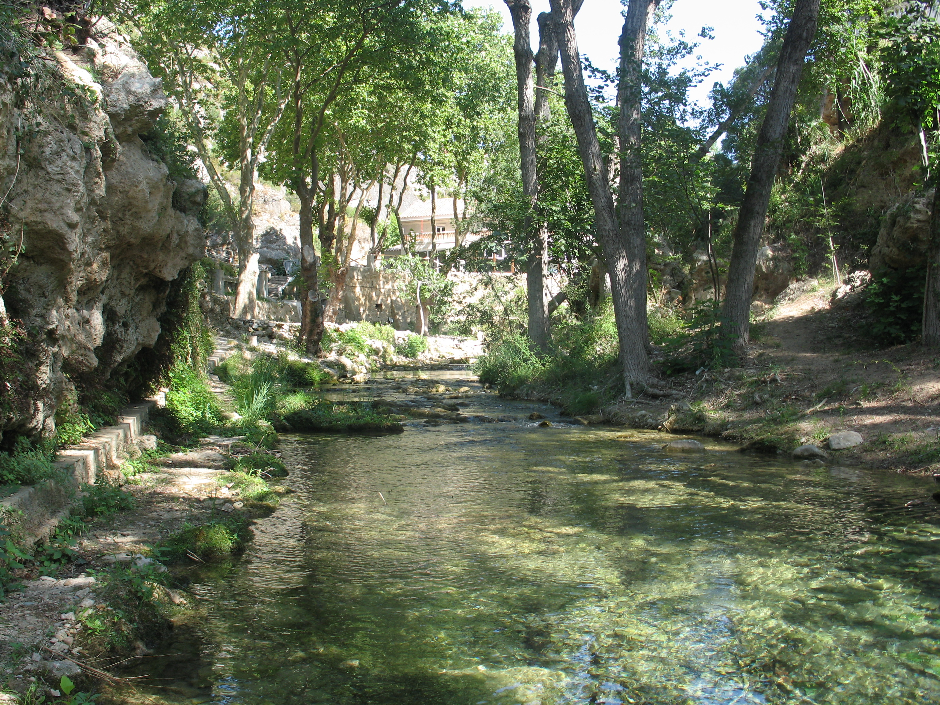 Photo taken near the Font de Sant Pere in the town of La Senia, Tarragona, Spain.